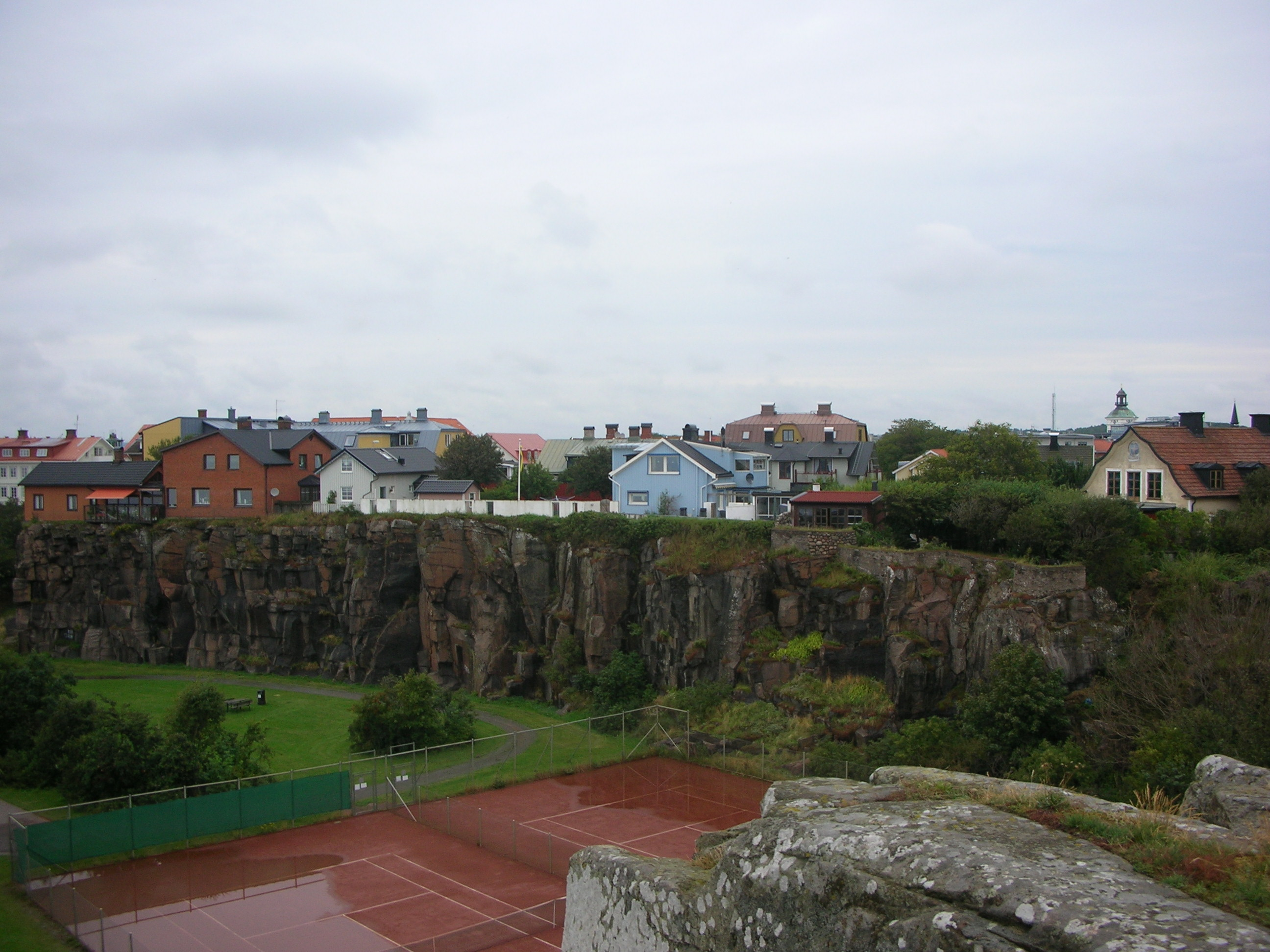 View of Platsarna in Varberg, Sweden.